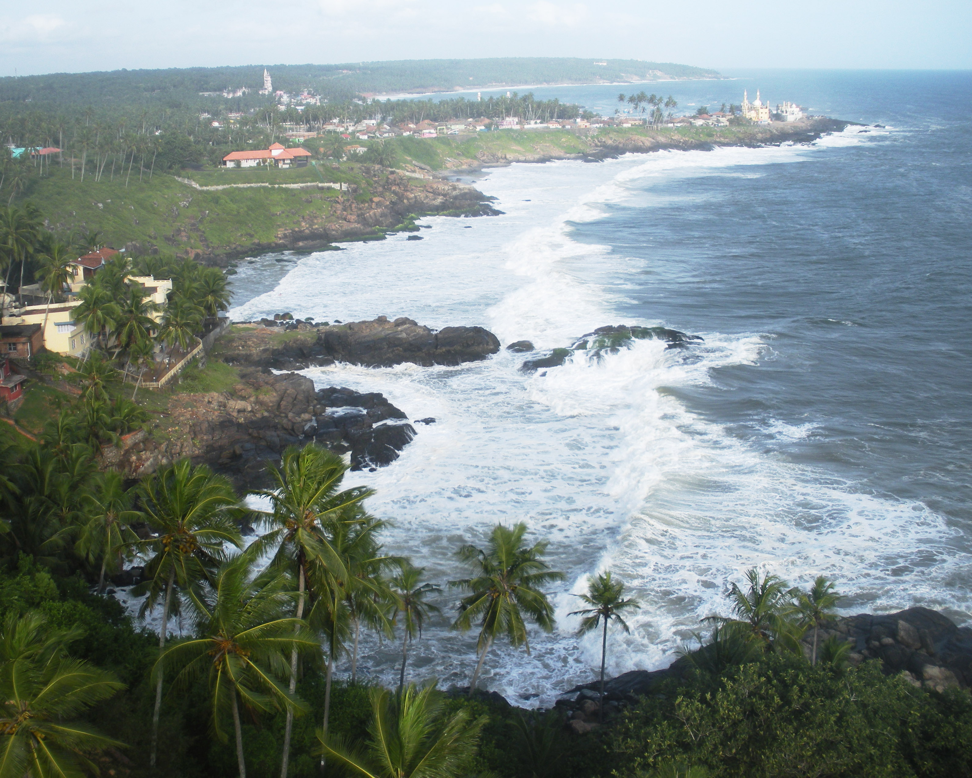 Kovalam Beach - View from lighthouse(other side)